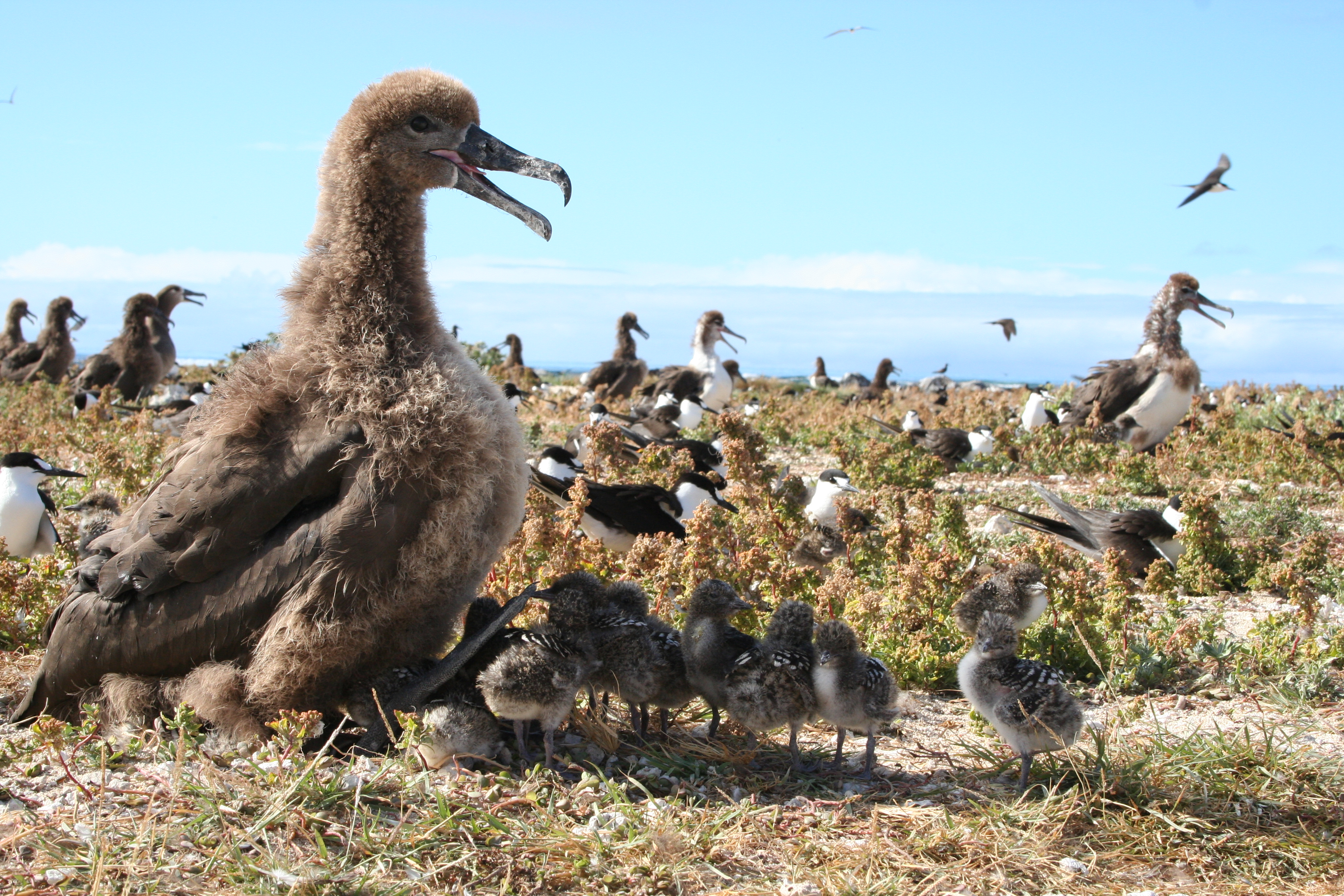 Black-footed Albatross Phoebastria nigripes being used as sunshade by Sooty Tern Onychoprion fuscatus chicks. French Frigate Shoals, Hawaii